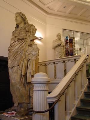 Amsterdam_allard_pierson-entree with plaster-cast statue of Mausolus